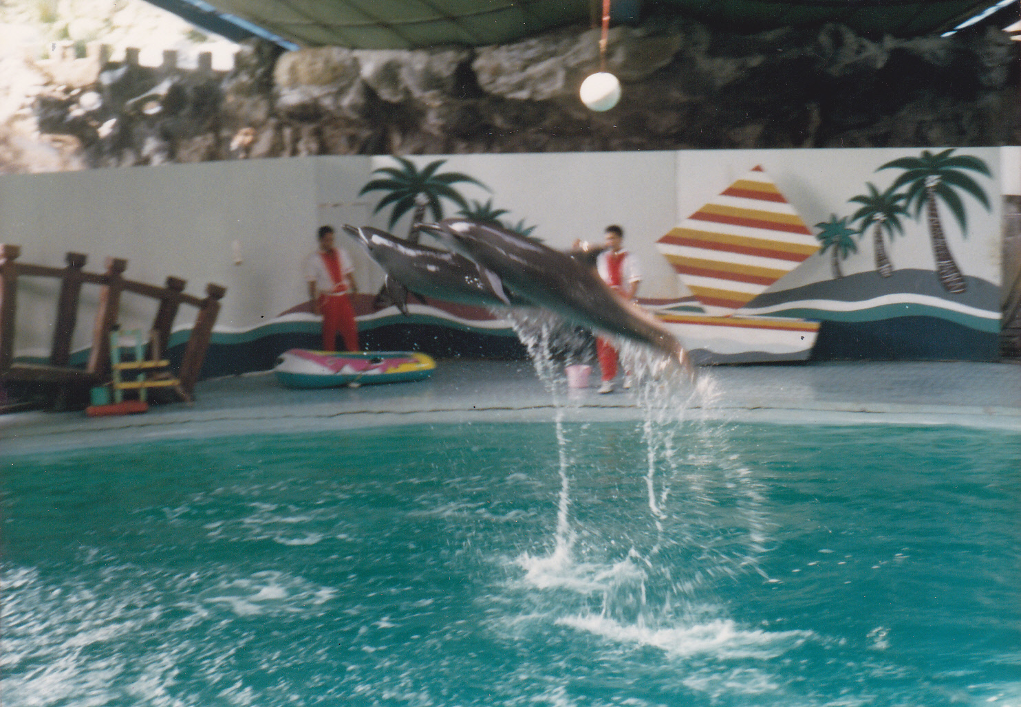 dolphin show - ancol (jakarta, indonesia 1995)